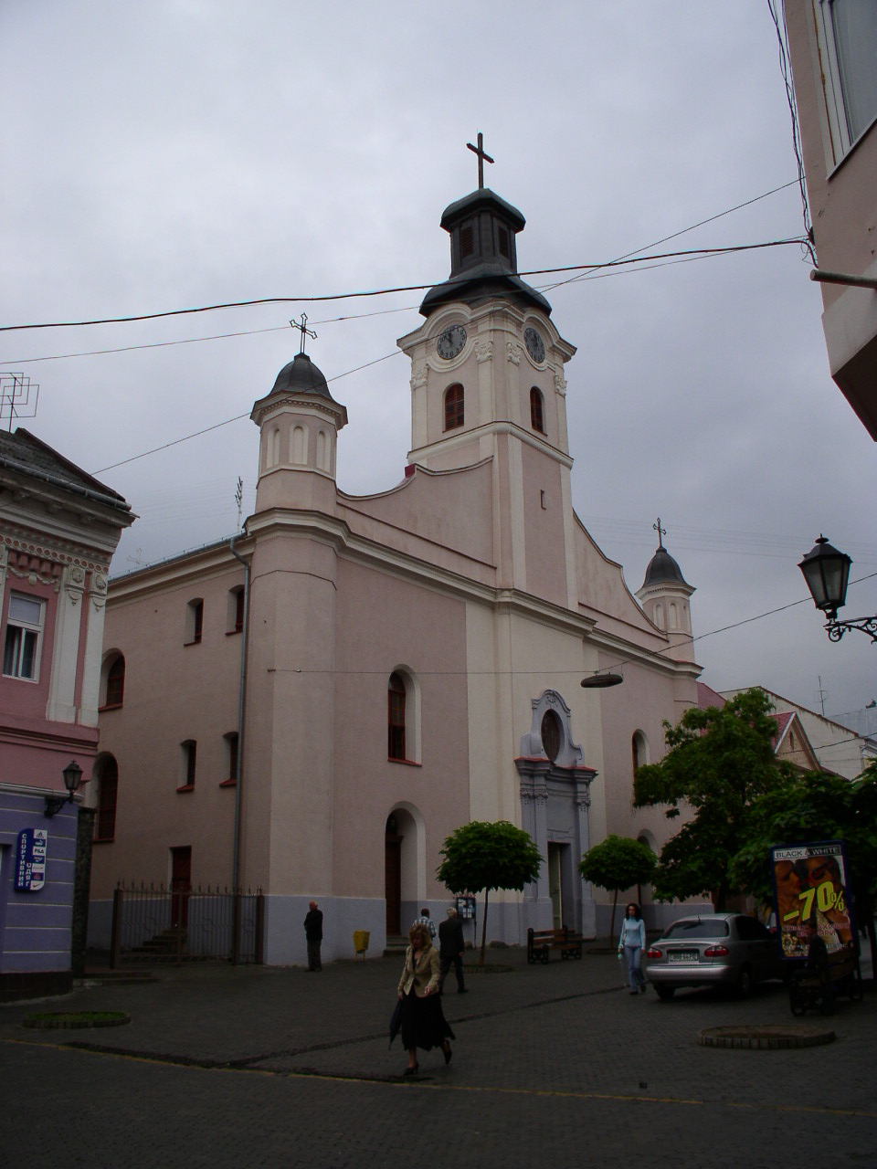 Church of Saint George the martyr. Uzhhorod, Ukraine.